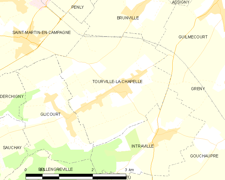 Map of French municipality Tourville-la-Chapelle